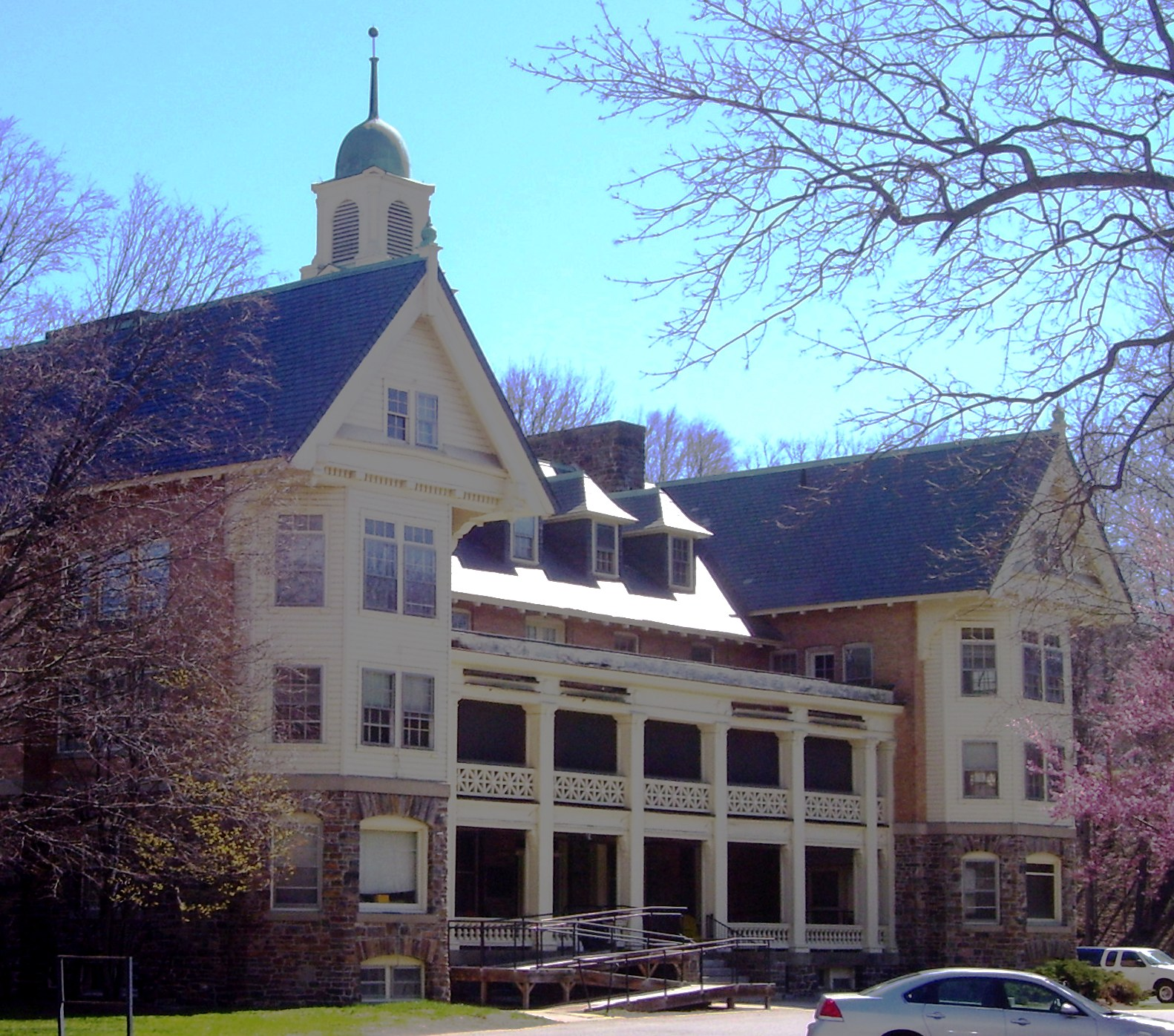 The Brattleboro Retreat, founded in 1834, is a facility for the treatment of mental health disorders and drug addiction. It is located in Bratteboro, Vermont on a site of over 1000 acres on the Retreat Meadows inlet of the West River. Brattleboro Retreat was "the first facility for the care of the mentally ill in Vermont, and one of the first ten private psychiatric hospitals in the United States". (Source: "Mission & History" on the Brattleboro Retreat website) Lawton Hall, pictured here, includes a gymnasium, theater, offices, the world's first hospital swimming pool (no longer used), and a ay care facility.